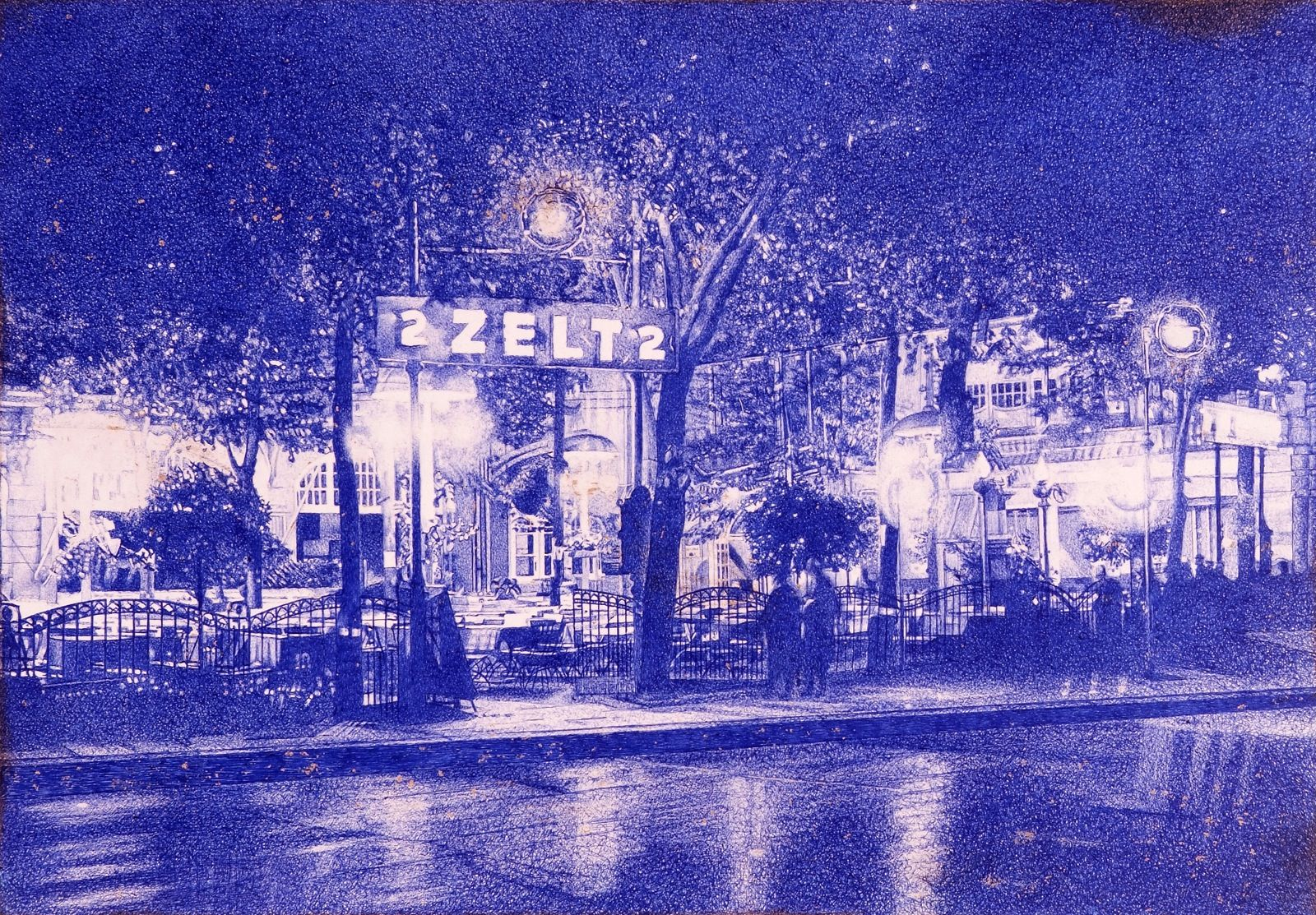 'Wayside Chapel (3)', H:35, L:50 cm, Ball-Pen on Resopal